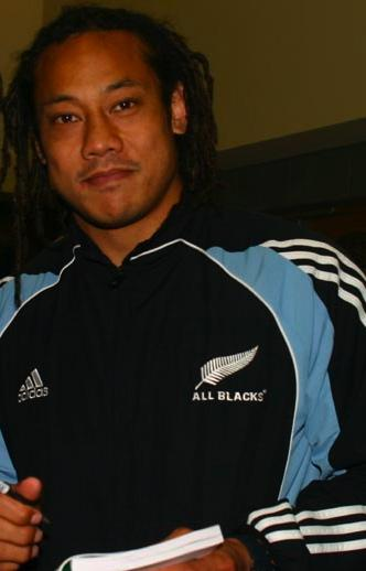 Tana Umaga